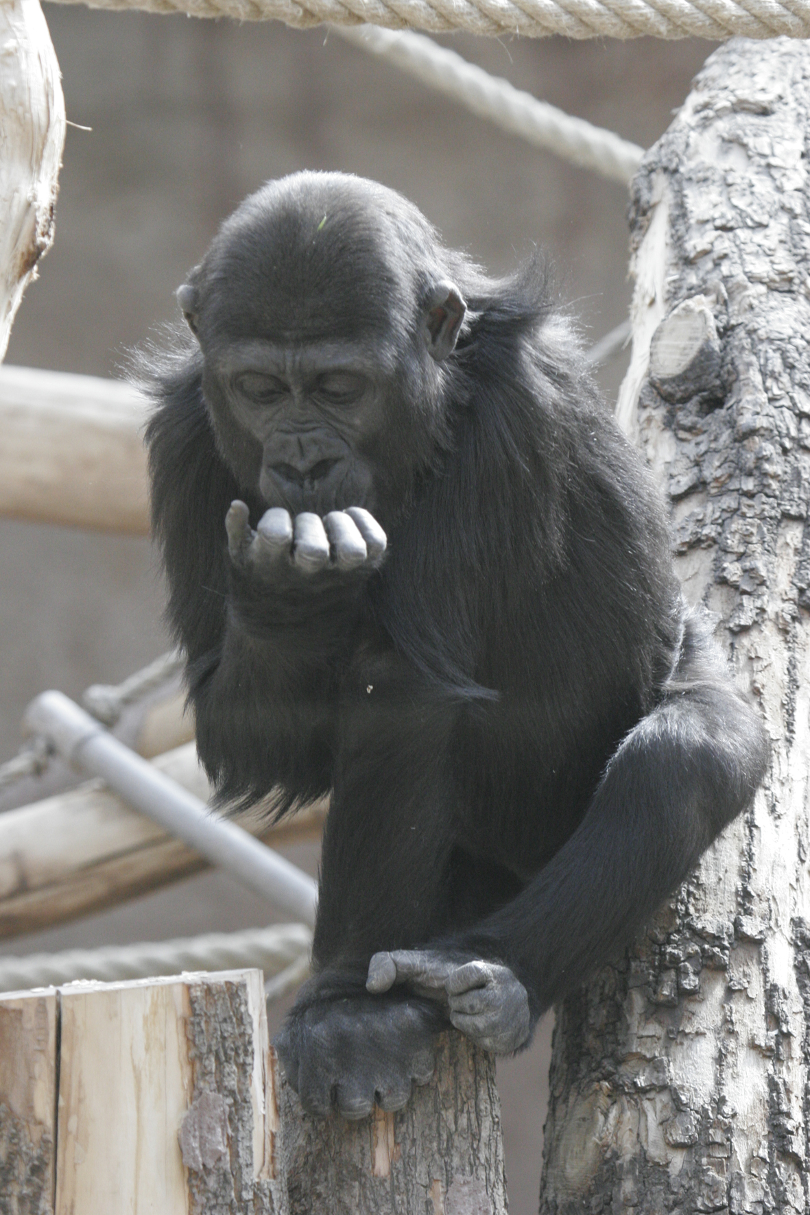 Moja - first gorilla born in captivity in ZOO Praha